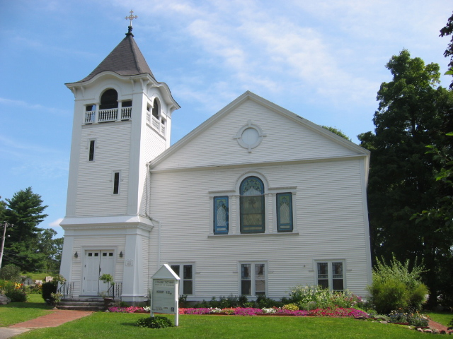 Sudbury Presbyterian Church, Sudbury, Massachusetts.